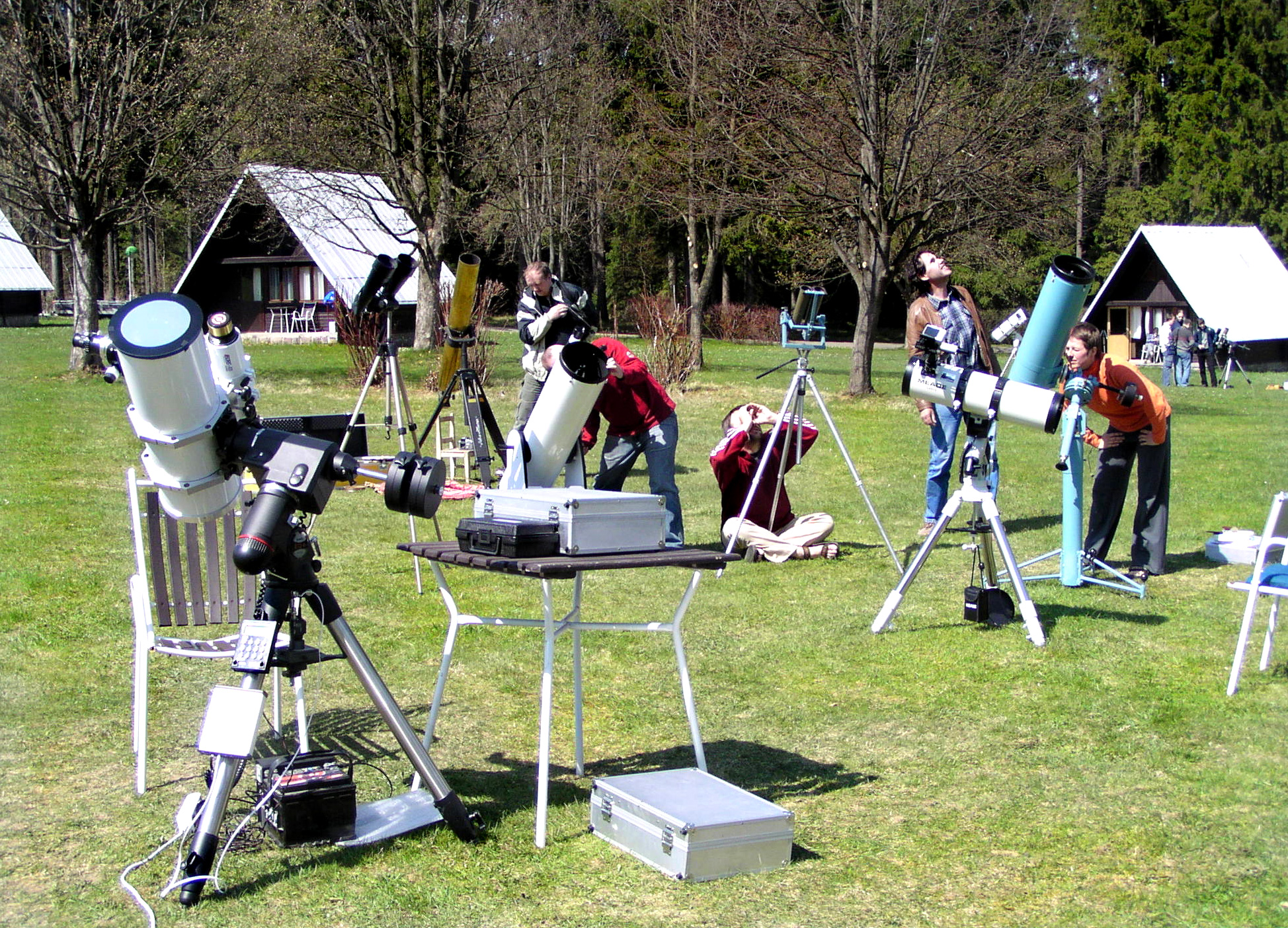 Meeting of the Czech astronomical society with observation